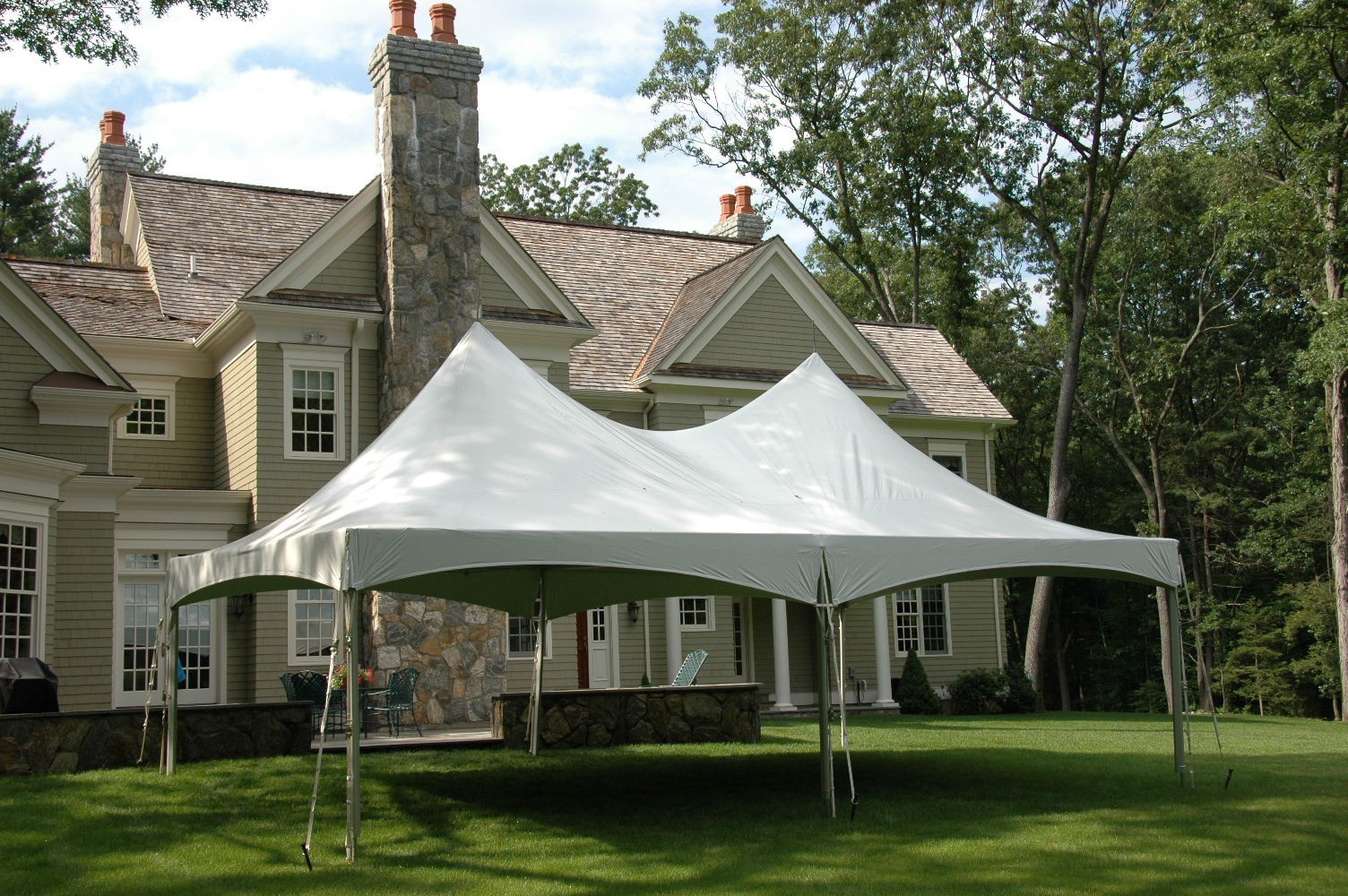 A 20 x 30 High Peak Frame Tent is set up in the back yard. Note that since the length is 1.5 x the width there are two peaks.